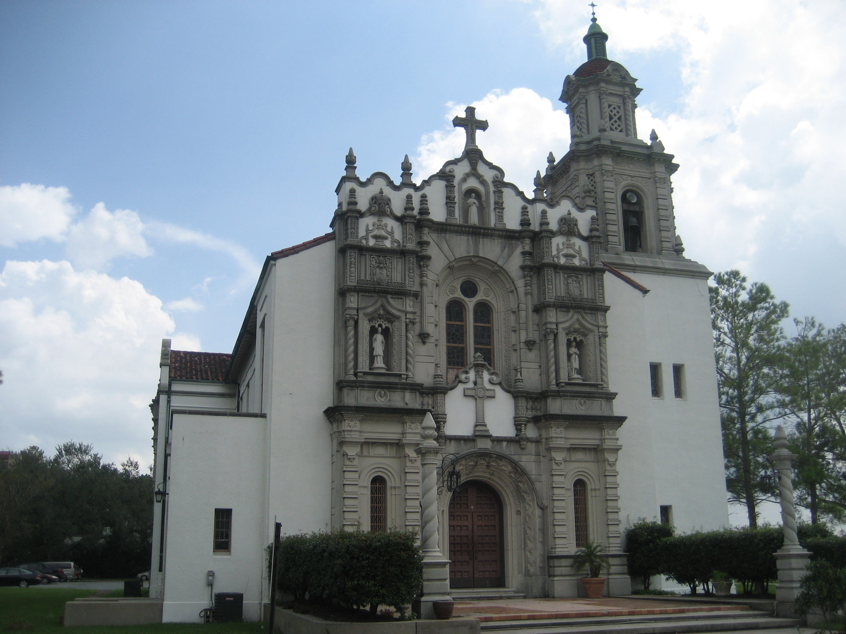 Saint John Bosco church, Marrero, Louisiana